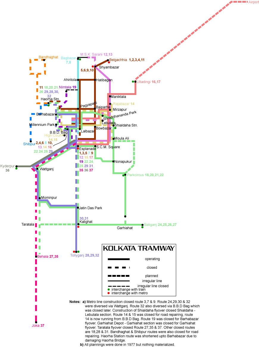 The latest map of Kolkata tram, includes, operating, closed & planned lines.